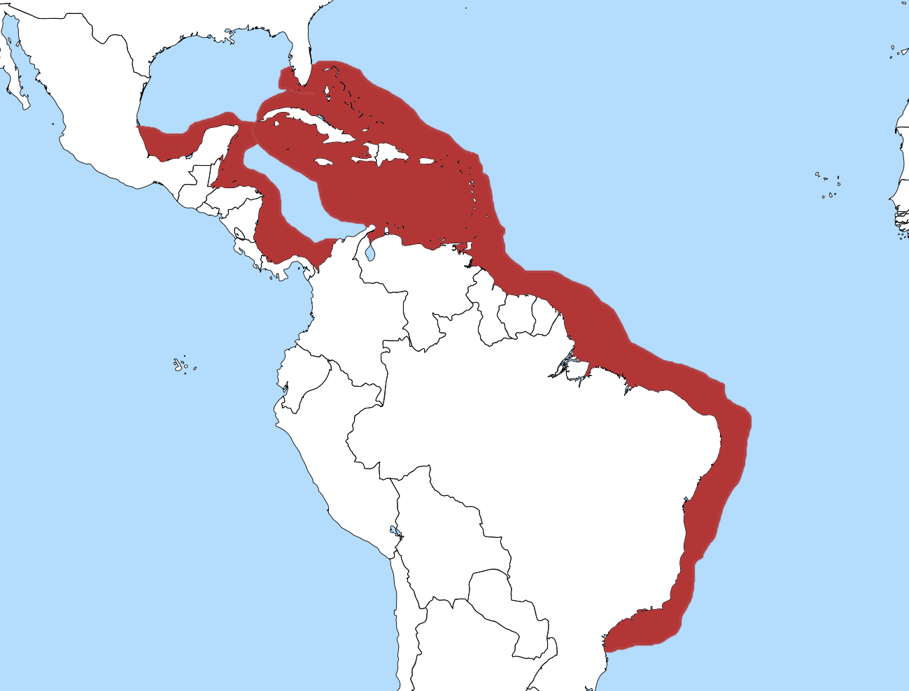 The Range of the Painted Electric Ray